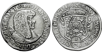 GERMAN STATES, Saxony. Johann Georg II. 1656-1680. AR 1/3 Thaler (32mm, 9.64 gm). Dated 1672. Bare-headed, draped, and armored bust right / Crowned ducal coat-of-arms. KM 547. VF.